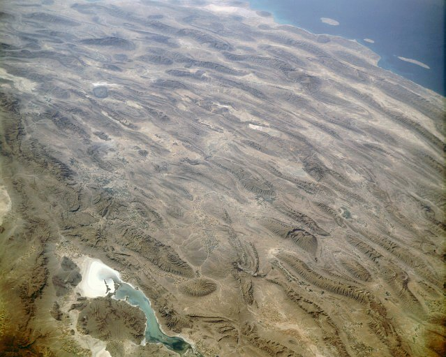 Zagros Mountains, Iran. Photo center point: 28.0° N, 54.0° E (near Banaruyeh). NASA Space Shuttle photo STS047-151-35.JPG. One of the most beautifully folded mountain ranges in the world, the southern Zagros Mountains of western Iran can be seen in this south-southwest looking low oblique view. Pushed up by the collision of crustal plates, the Zagros Mountains were buckled into high folds, or anticlines, and depressions, or synclines. Extending from northwest to southeast is a broad zone of long parallel lines of enormous hogback ridges and deep intervening valleys (right center to upper center of the image). There are numerous salt marshes in many of the valleys, such as Lake Bakhtegan, visible in the lower left portion of the image. Iran's major oil fields lie along the western foothills, where salt domes have trapped oil. The Persian Gulf is visible in the upper right portion of the image.